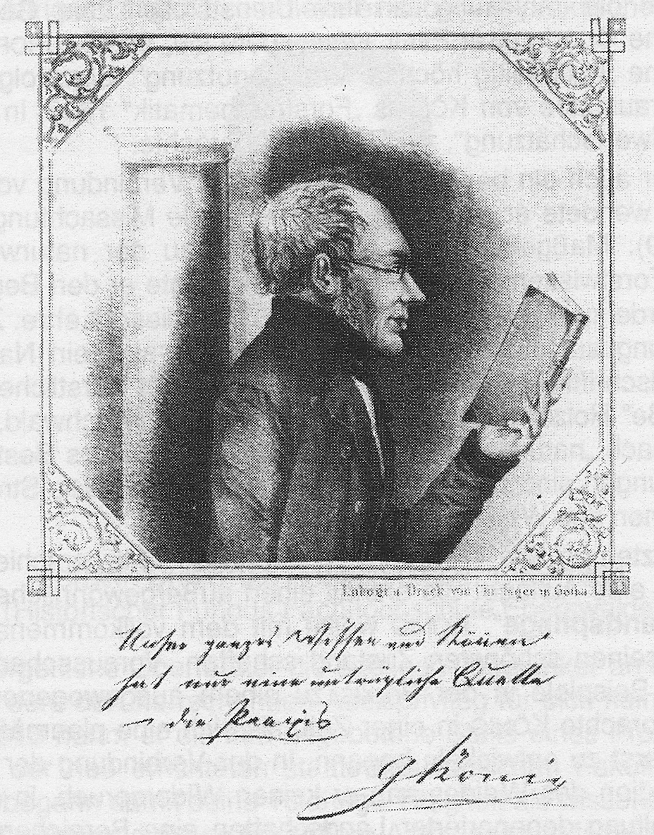 Gottlob König (1779-1849), German forestry scientist.